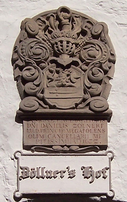 Zoellners Hof off Depenau 10, Lübeck